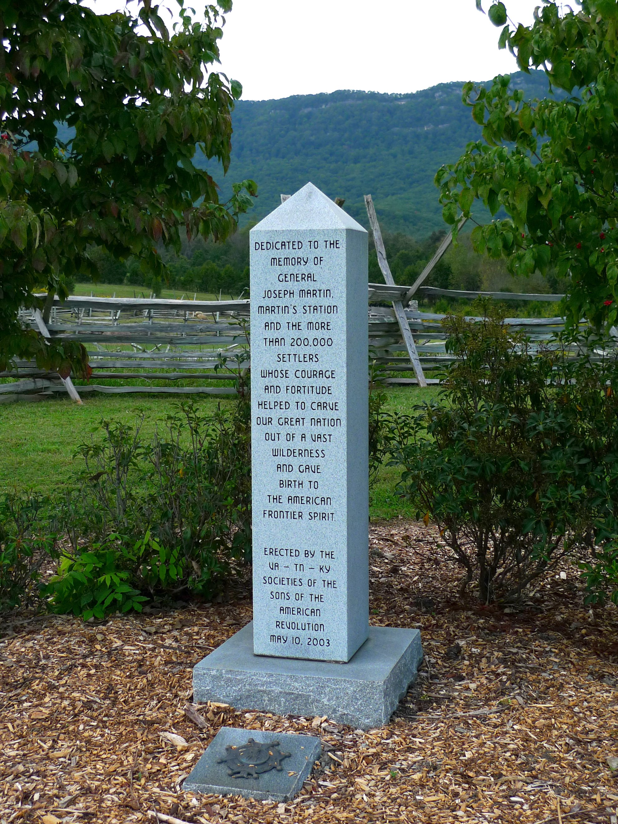 Memorial to General Joseph Martin and settlers at Martin's Station, Virginia. Photograph courtesy of dmott9.